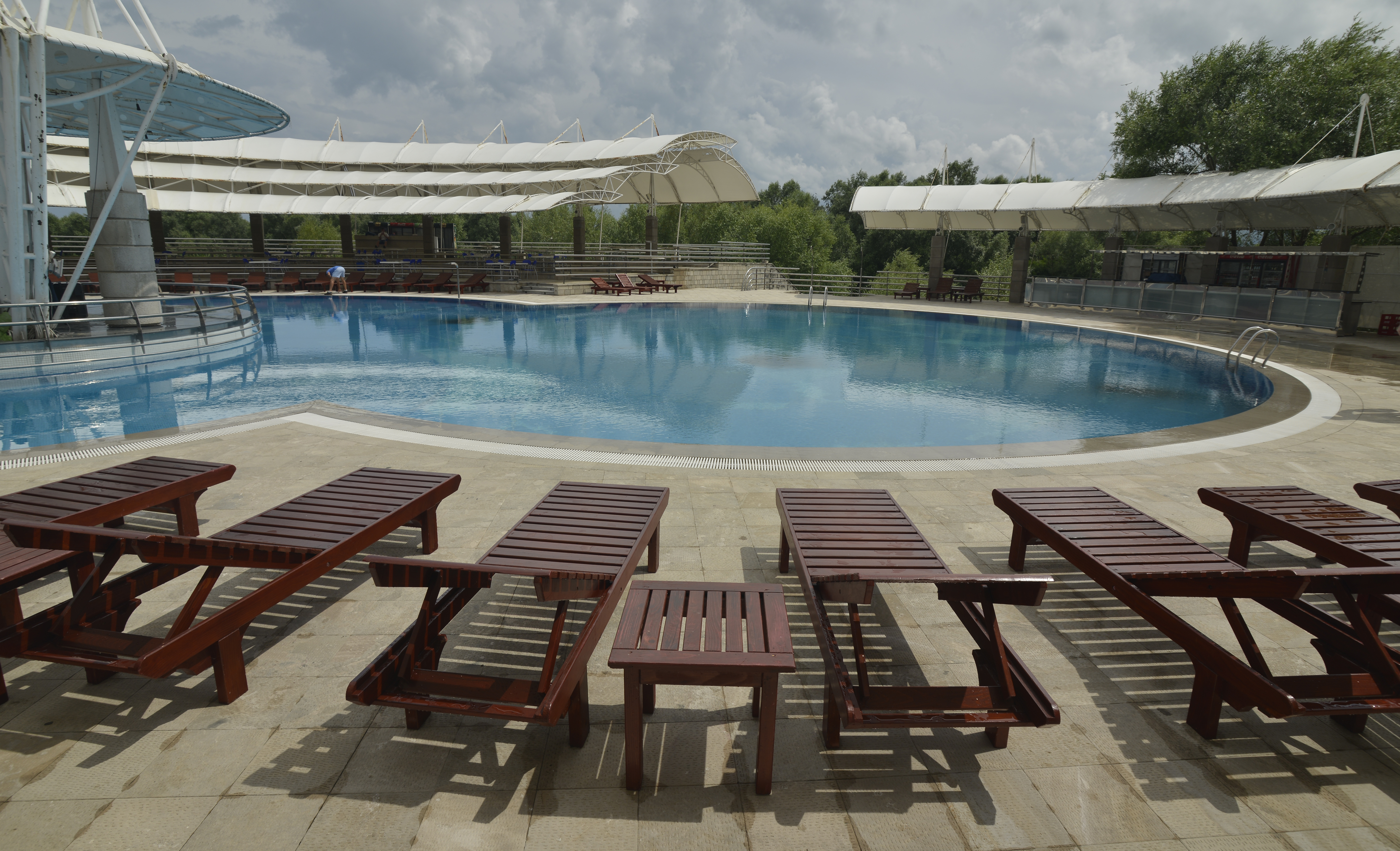 Plavnica Eco Resort, Skadar Lake National Park, Montenegro